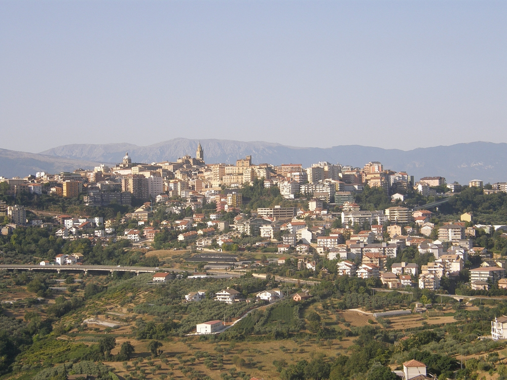 Chieti